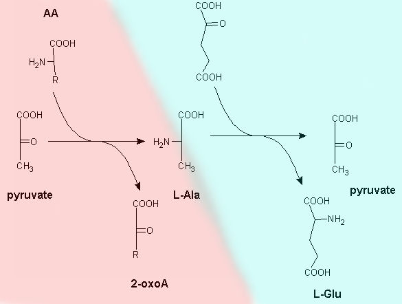 alanine cycle